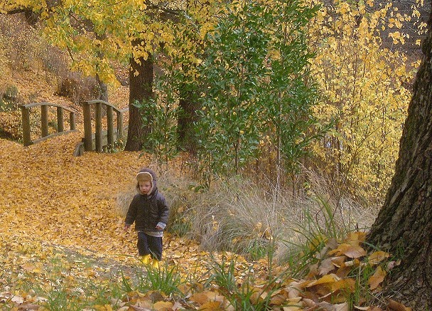 Photo taken in 2006 of Oscar in the Kyneton Botanical Gardens